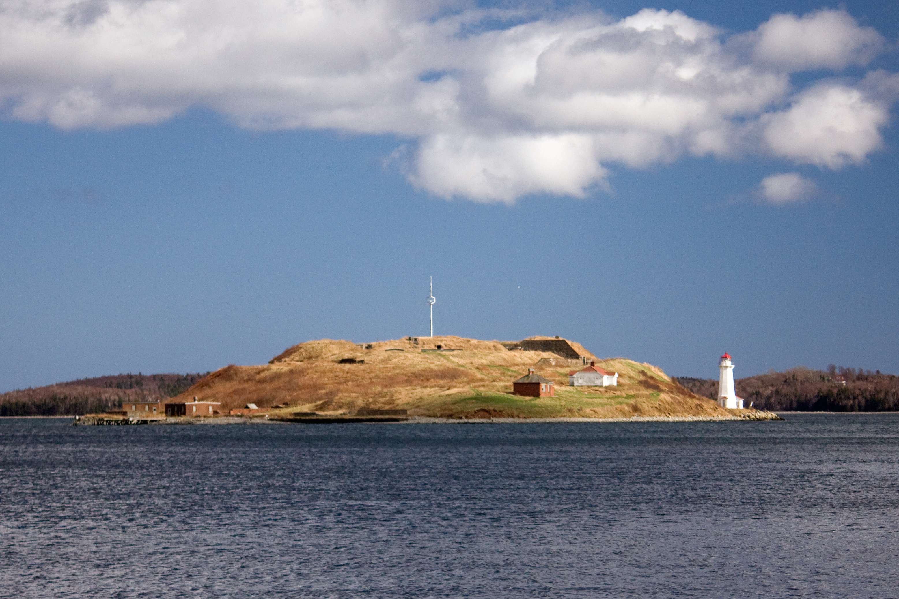 Georges Island Halifax